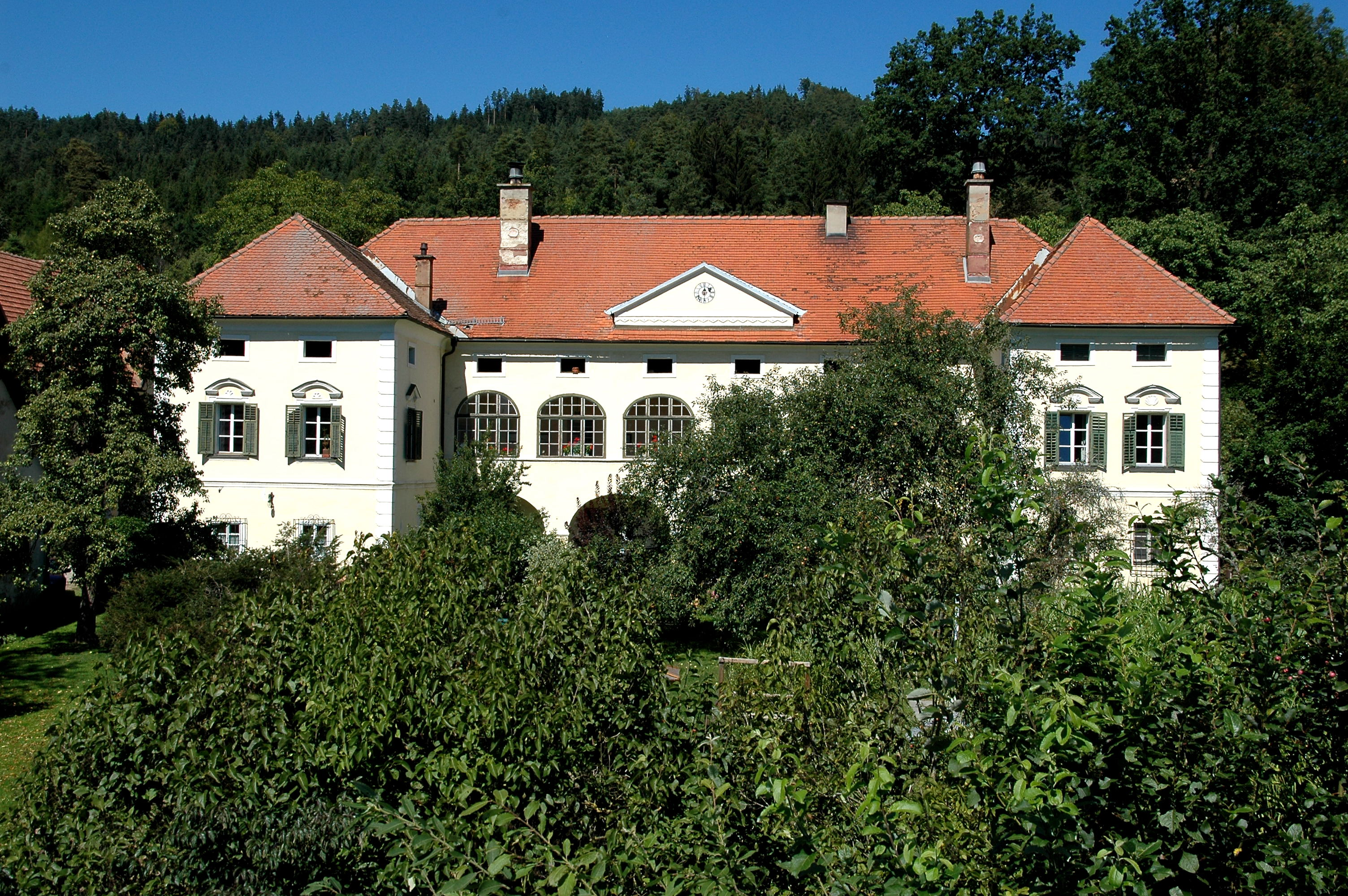 Castle Gundersdorf, municipality Magdalensberg, district Klagenfurt Land, Carinthia / Austria / EU